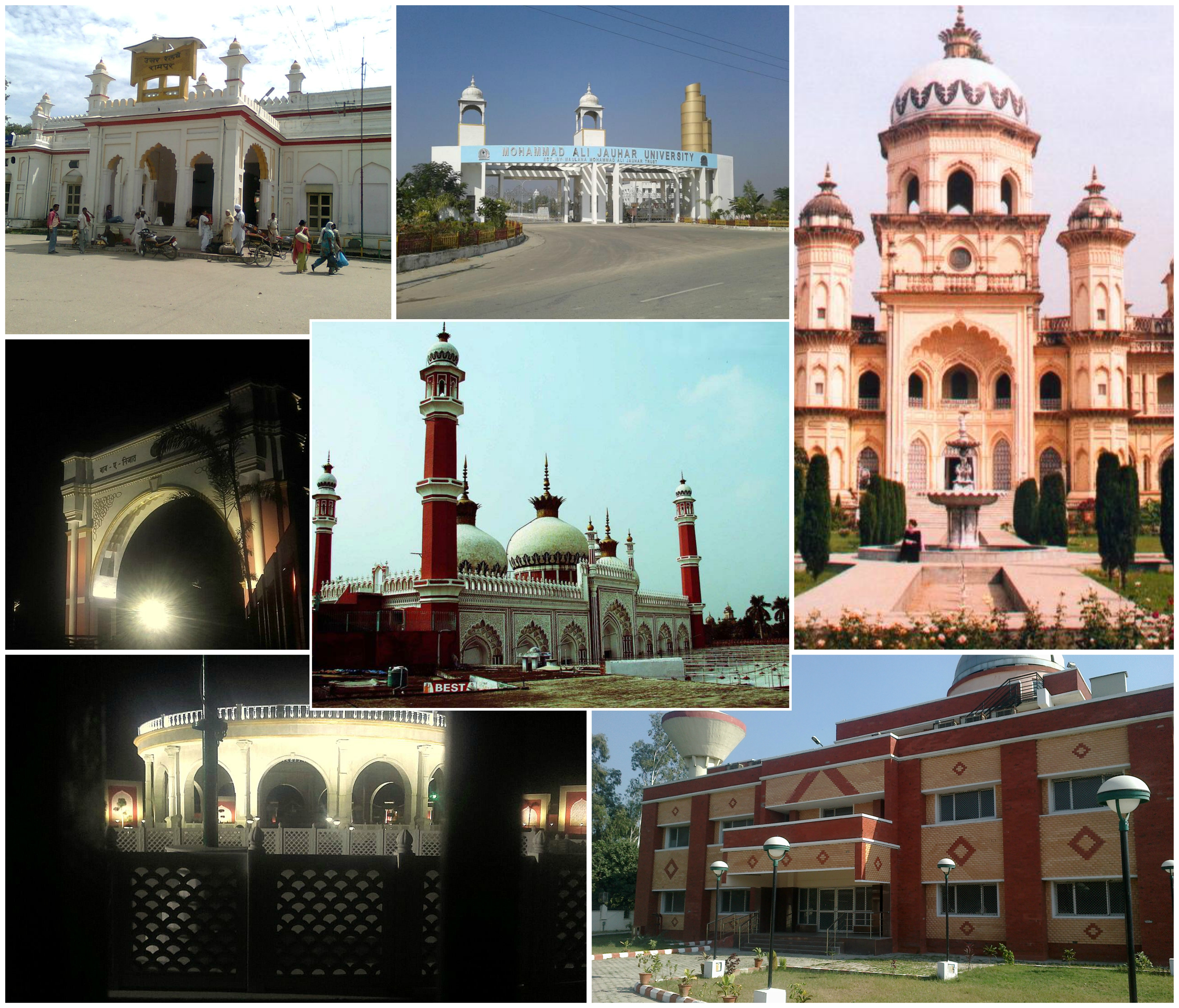 Collage of photos of Rampur, Uttar Pradesh